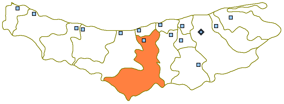 Author: Siamax Source: Mazandaran Plain Map Tag: Amol location in Mazandaran